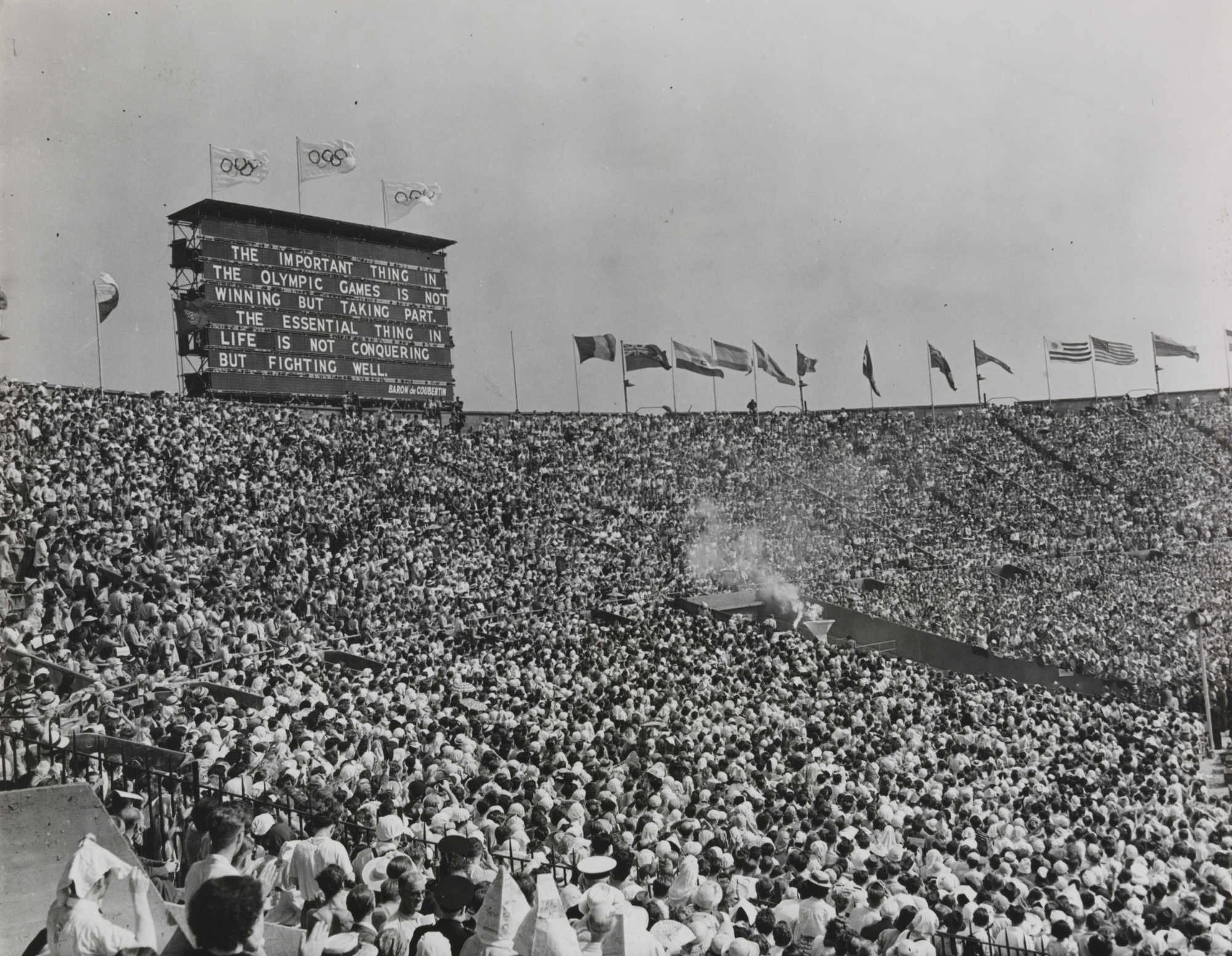 Daily Herald Archive at the National Media Museum We're happy for you to share this digital image within the spirit of The Commons. Certain restrictions on high quality reproductions of the original physical version of apply though; if you're unsure please visit the National Media Museum website. For obtaining reproductions of selected images please go to the Science and Society Picture Library.